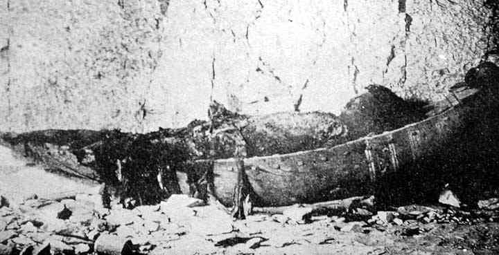 Mummy photo. It is supposed that it could be the mummy of Setnahta, the Pharaoh of XX dynasty. It is nowadays lost.